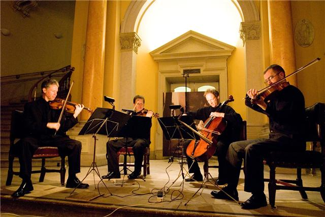 Picture of RTÉ Vanbrugh Quartet